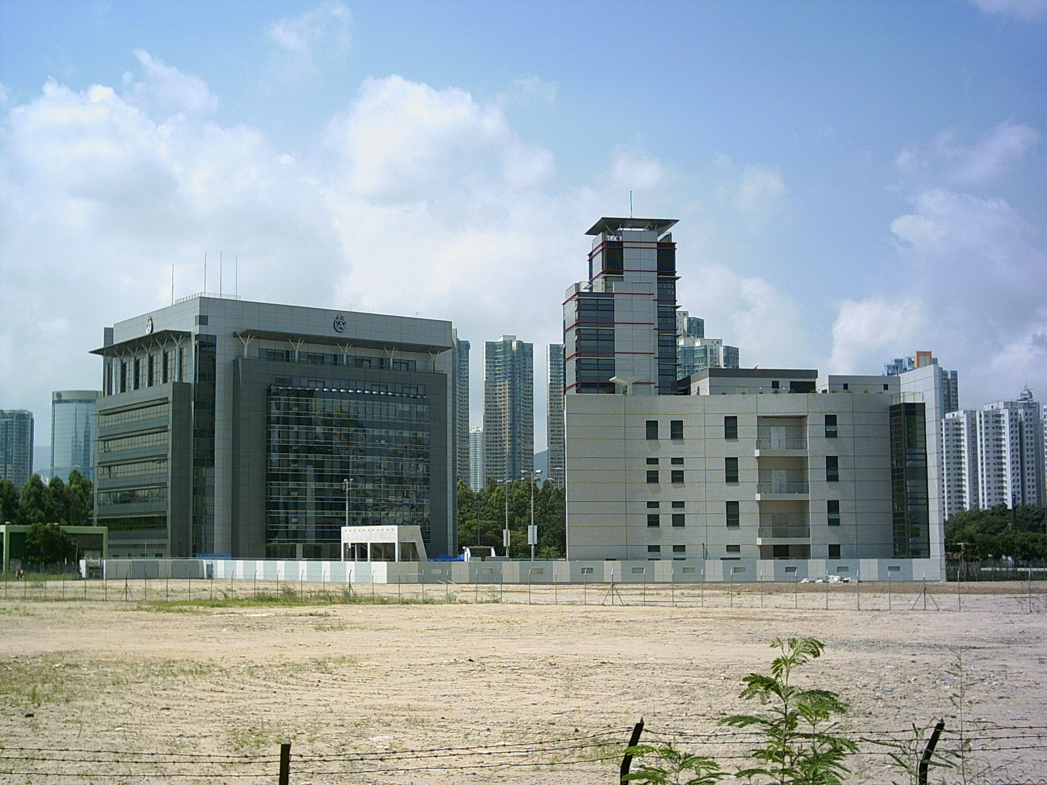 Civil Aid Service headquarters and the Fire Services training school in Yau Ma Tei. Taken by myself in August, 2006.